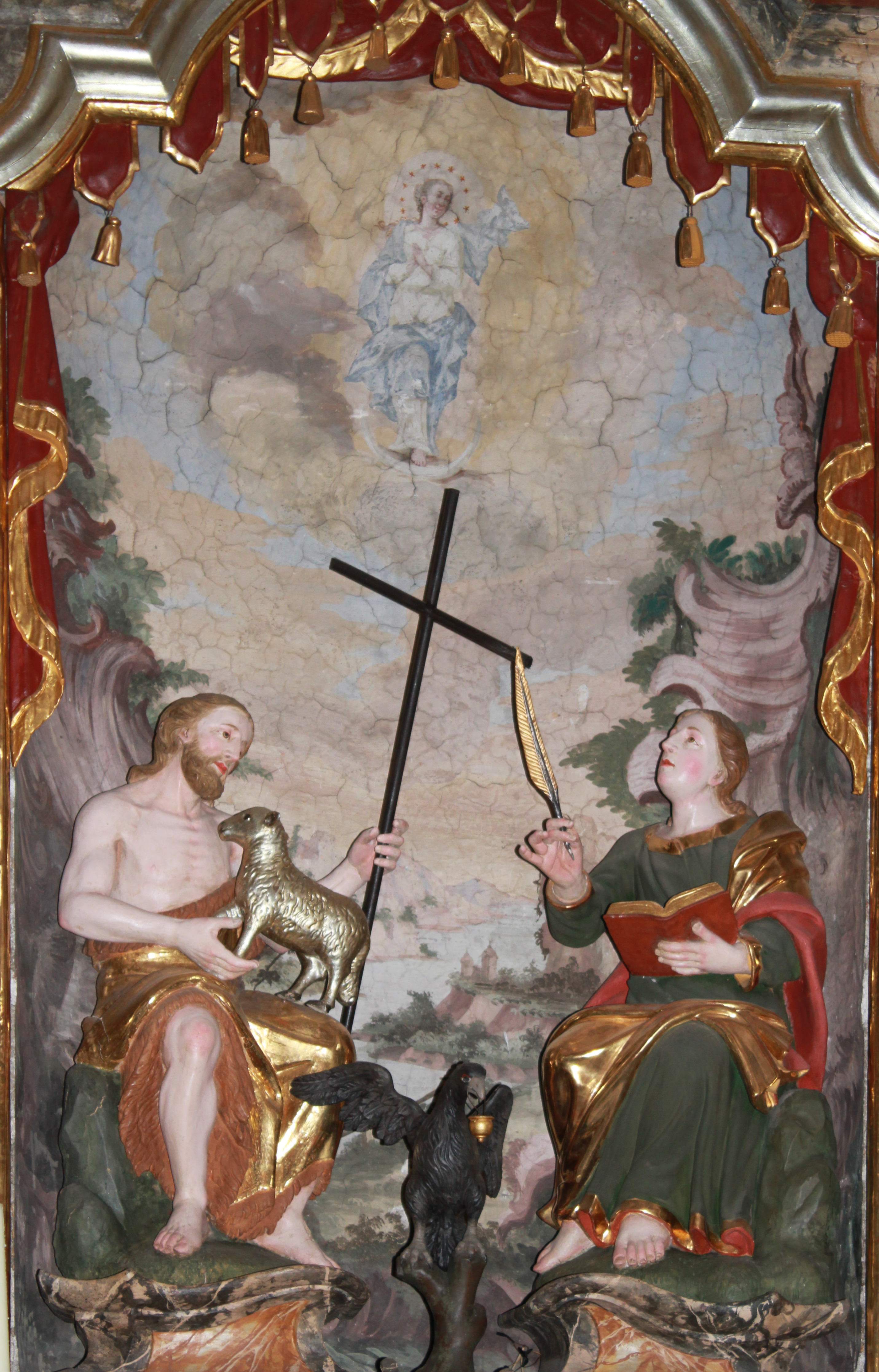 Church of St. Stefan in the community of Sankt Stefan im Gailtal - Side altar - detail